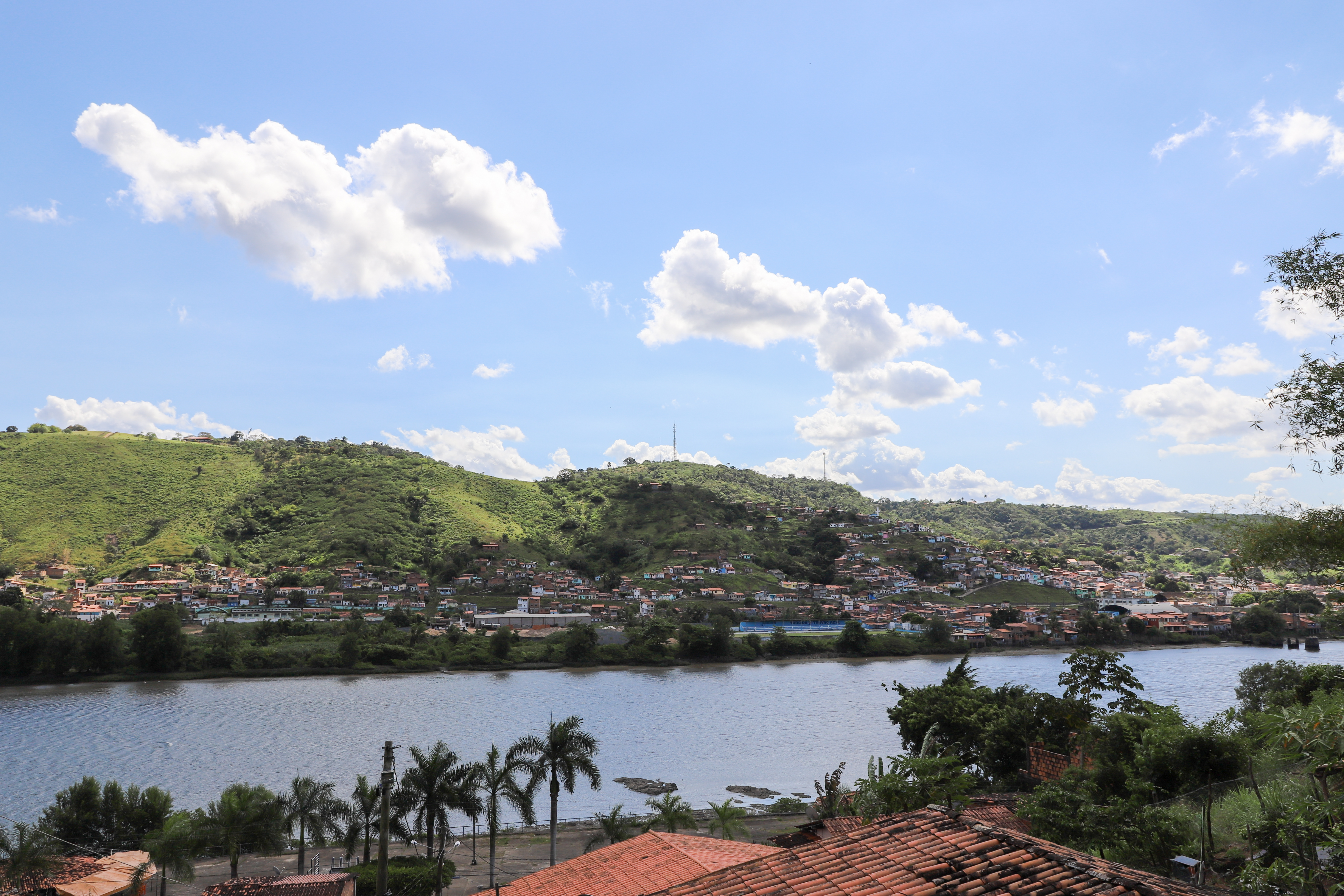 Paraguaçu River, Cachoeira, Bahia, Brazil.